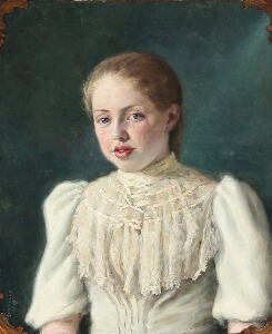 Portrait of a young girl in a white dress, oils on canvas, 63 cm x 53 cm, by the Danish painter Marie Henriques